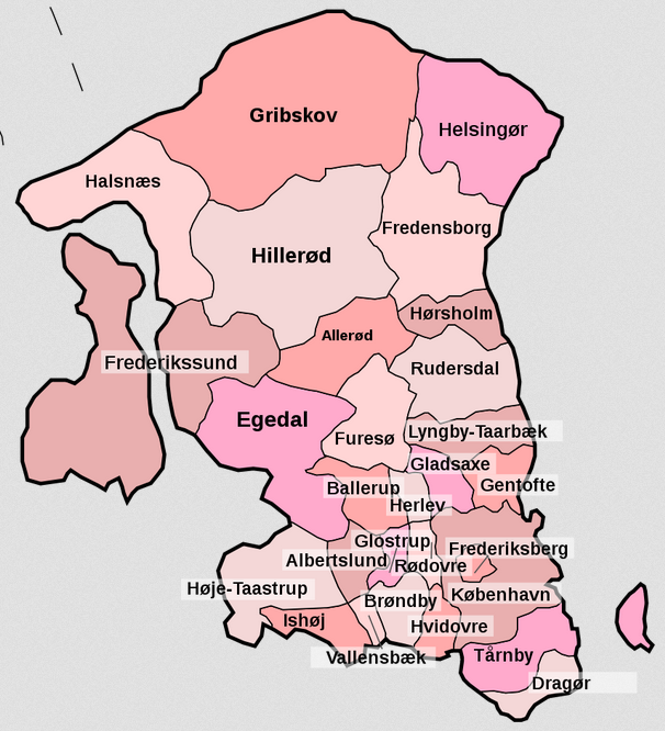 Municipalities of Hovedstaden, Denmark